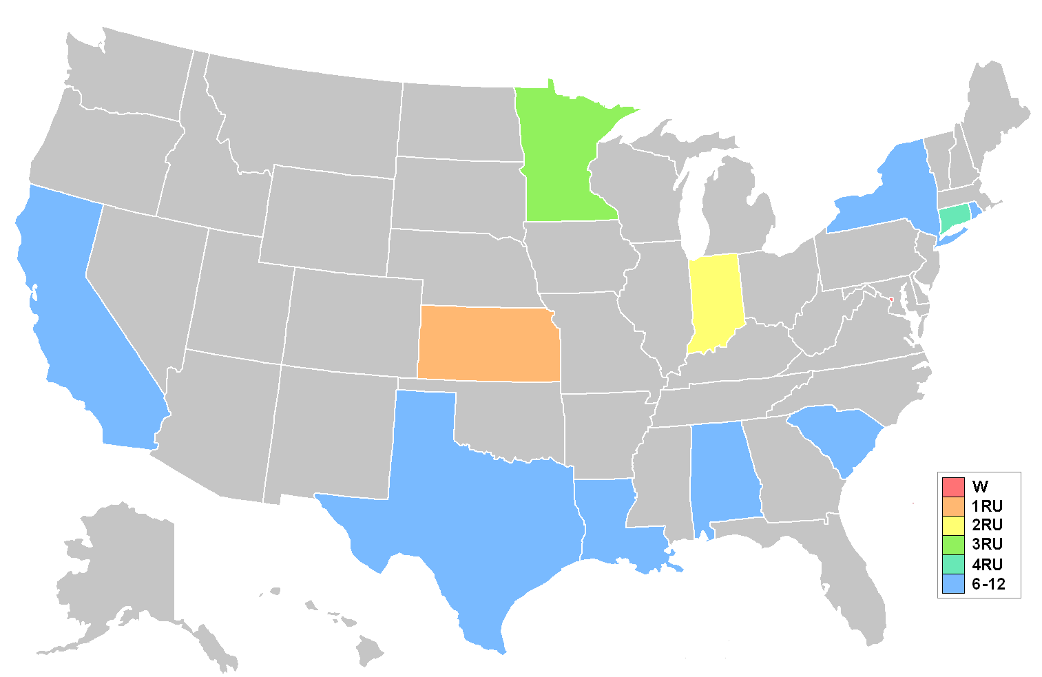 Map showing placements at the Miss USA 2002 pageant. Key on graphic shows colour coding for break down of placements.